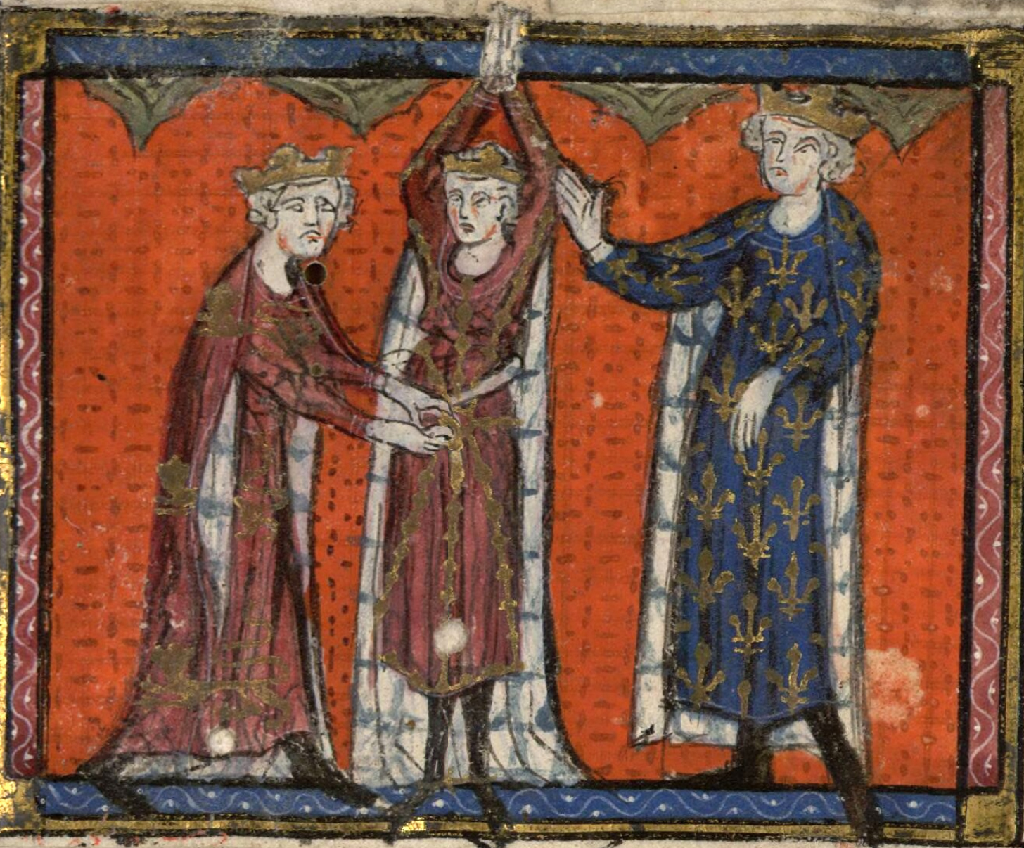 Edward II with his brother-in-law Louis X and father-in-law Philip the Fair